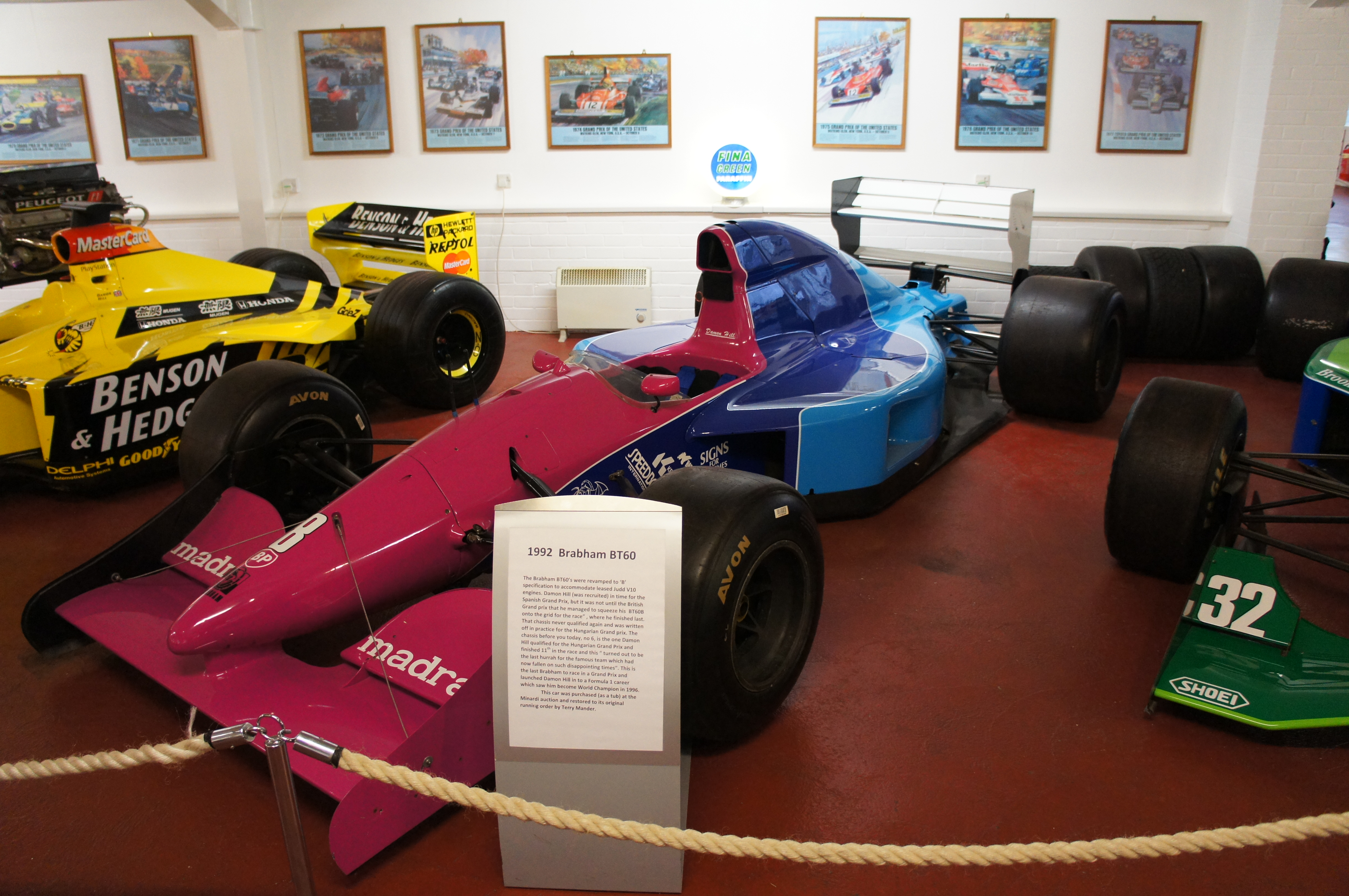 Brabham BT60 at Donington Park.